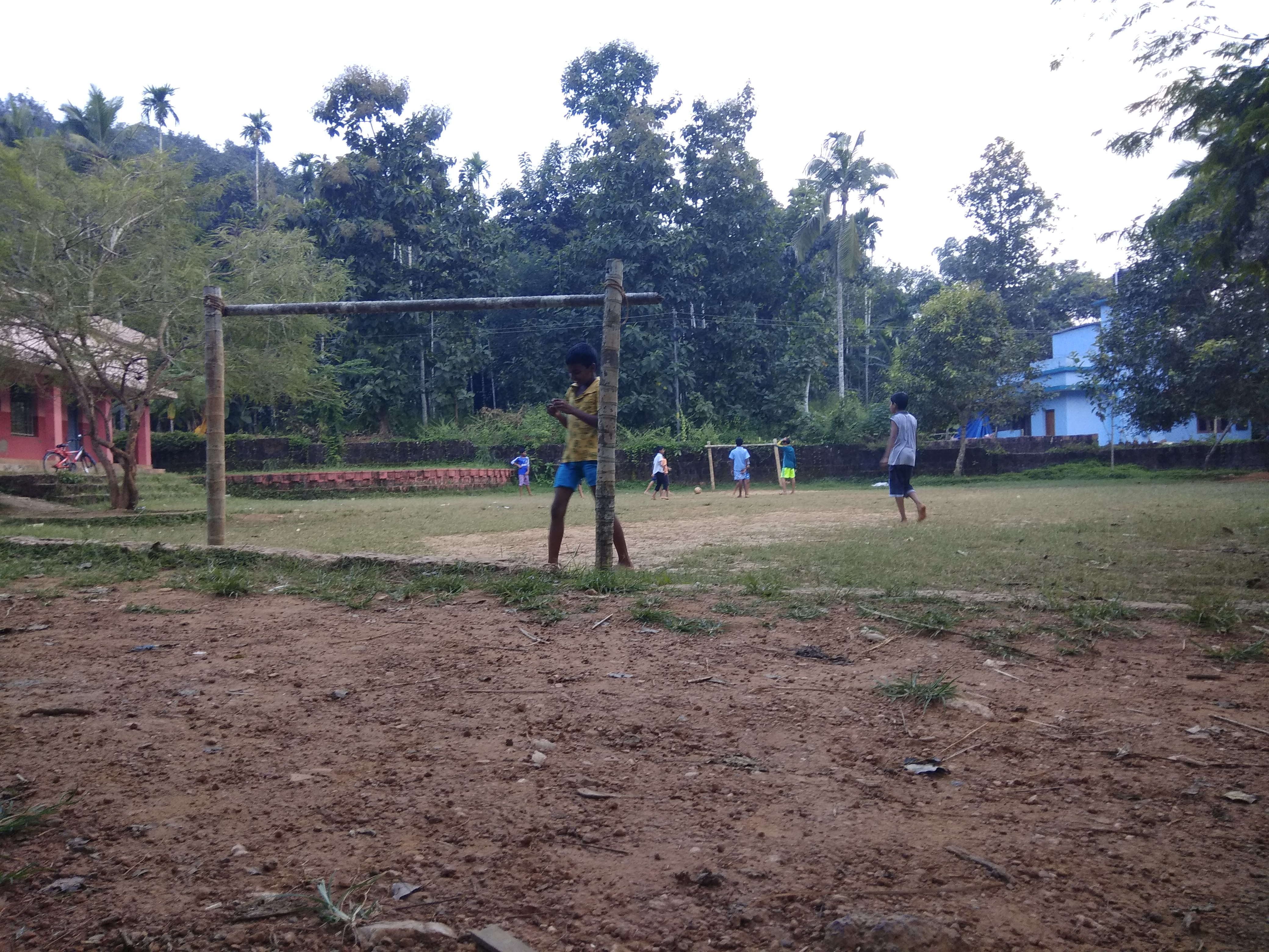 An evening view of vellavu ALP School-play ground